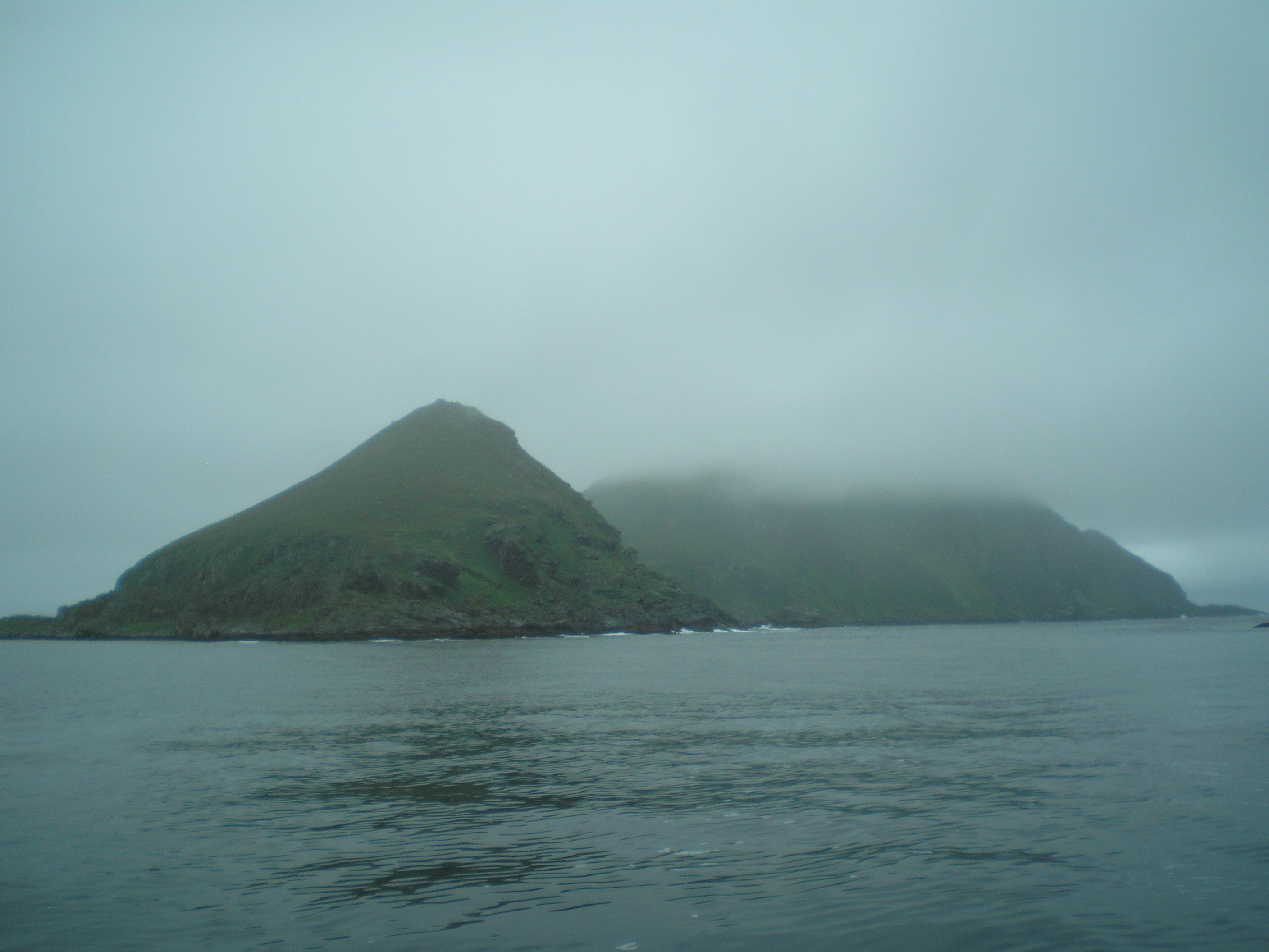 Gjesværstappan, near Gjesvær, in Nordkapp municipality, Norway.